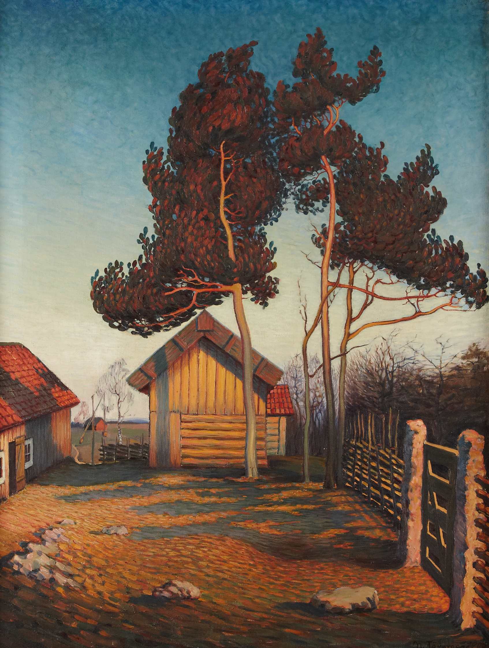 Oil on canvas, 104x79 cm